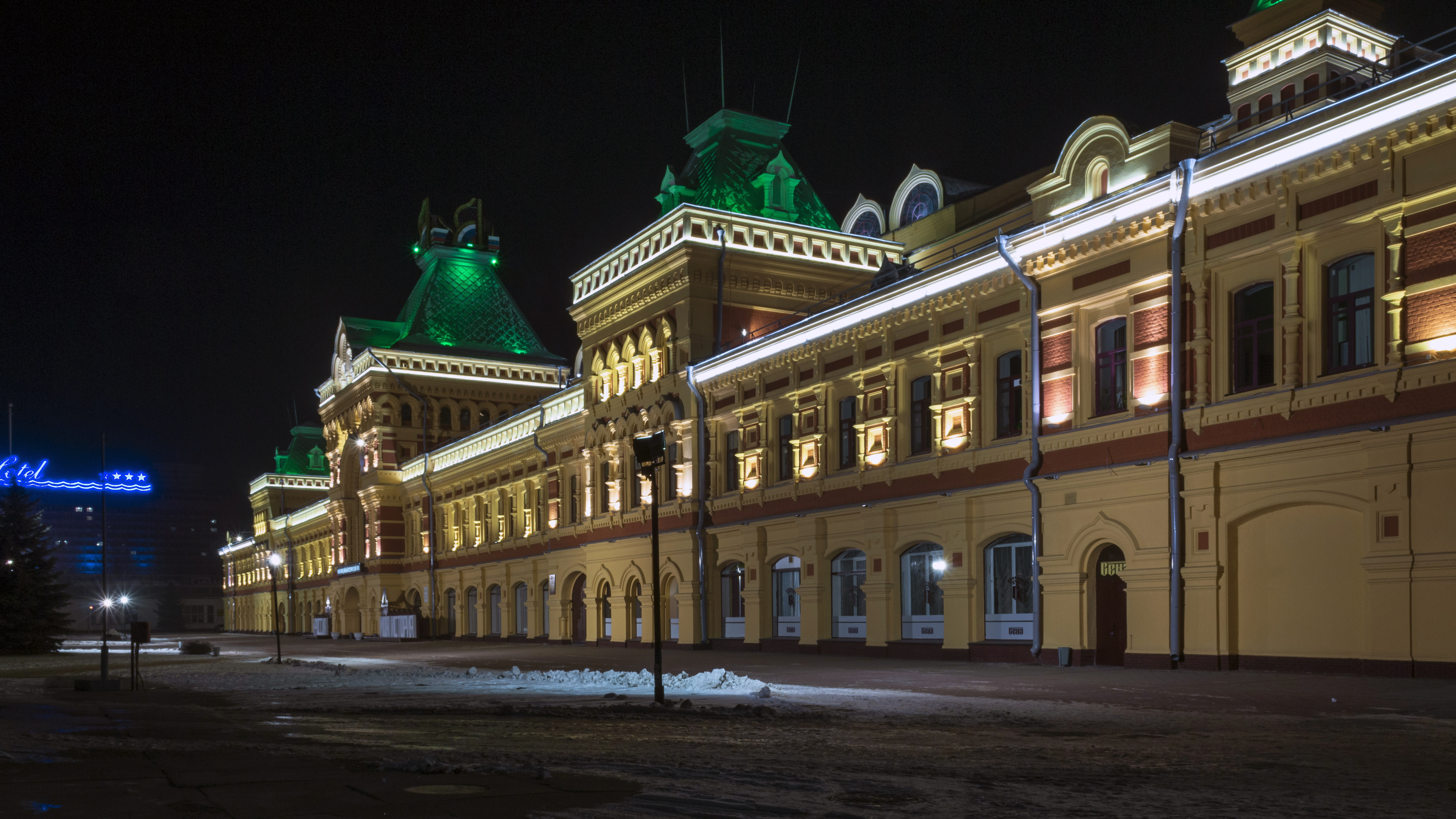 Main building of the Trade Fair at night in Nizhny Novgorod, Russia